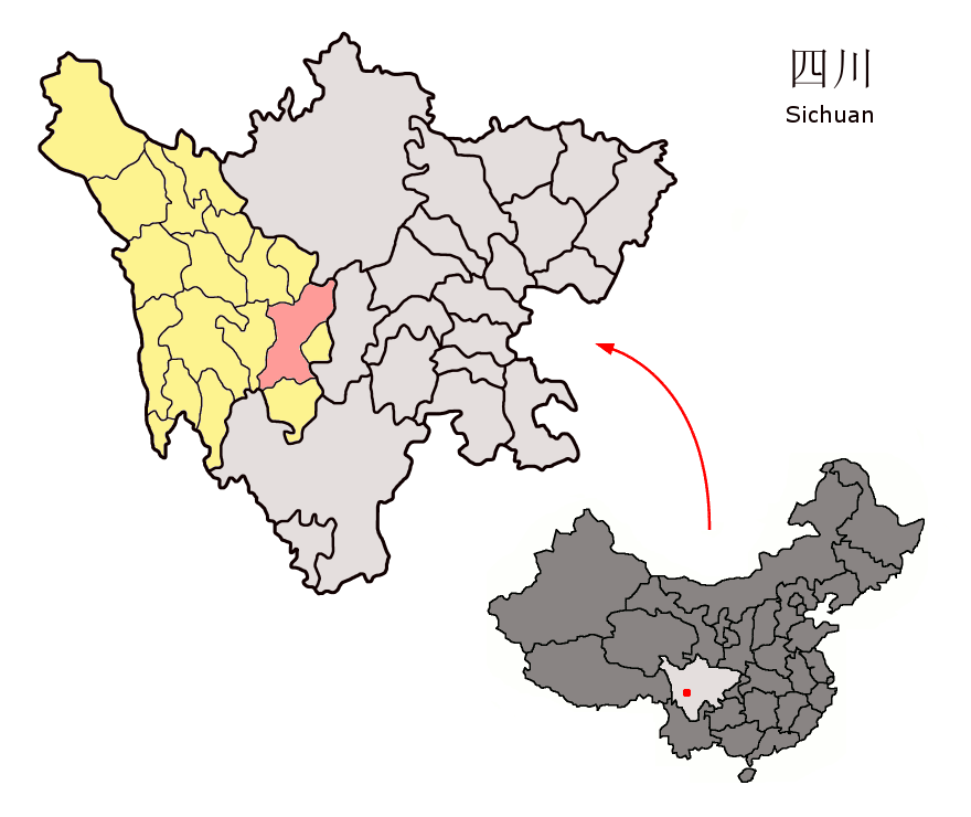 Location of Kangding County (pink) and Garzê Prefecture (yellow) within Sichuan province of China Map drawn in september 2007 using various sources, mainly : Sichuan province administrative regions GIS data: 1:1M, County level, 1990 Sichuan Counties map from